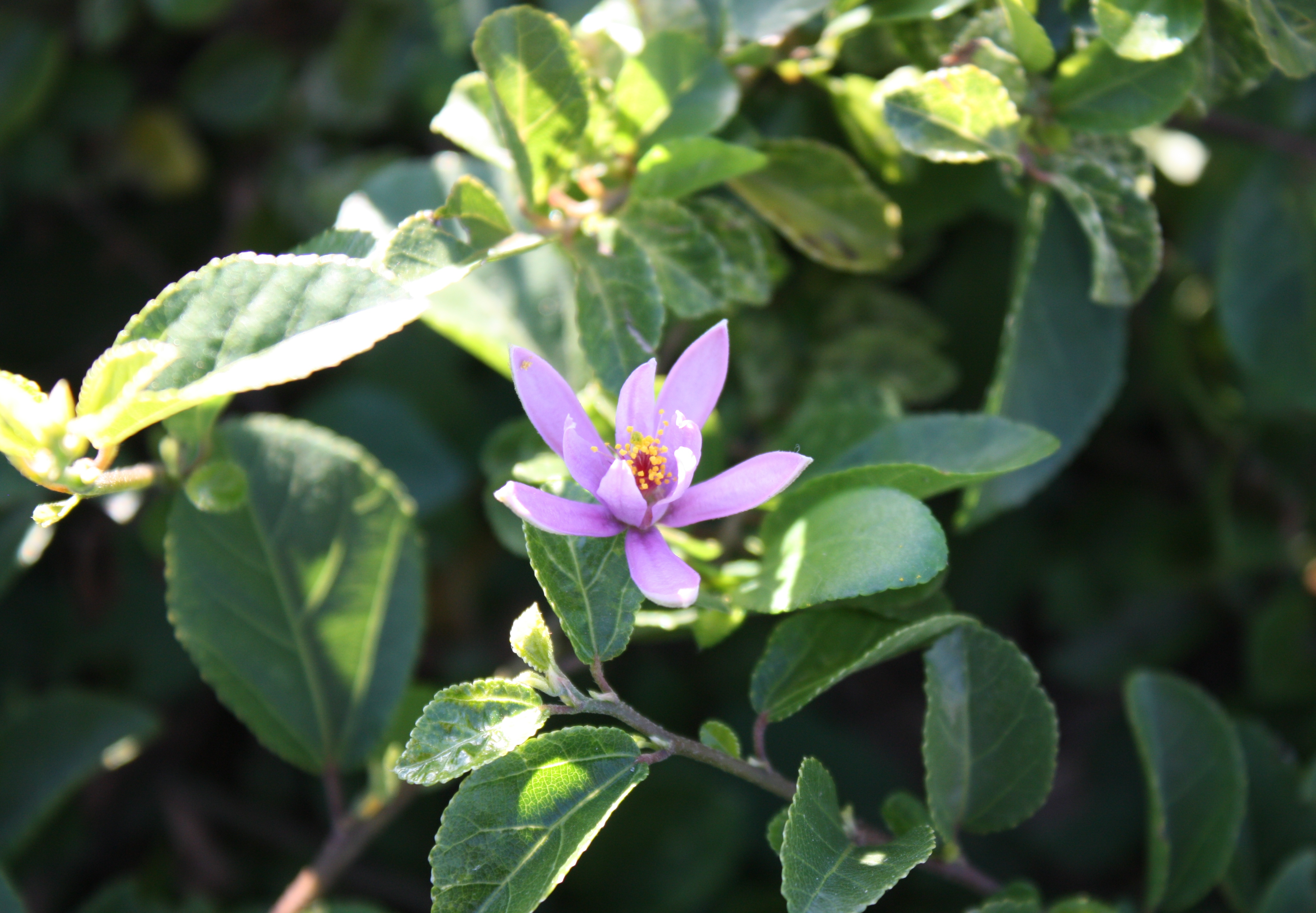 Grewia robusta. A popular indigenous garden plant of South Africa. Forms a bushy hedge. Easy to prune and shape.